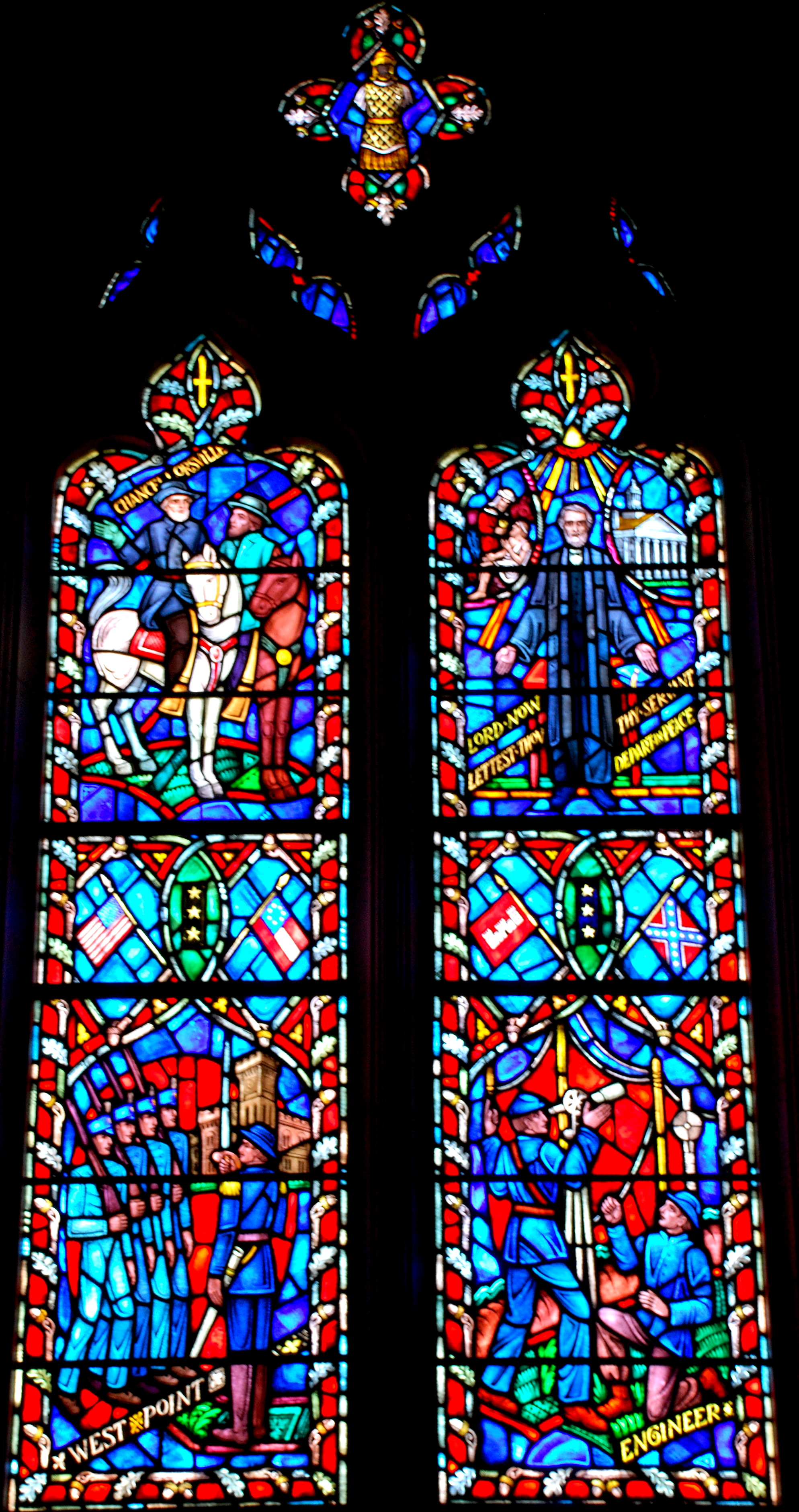 Stained glass of history of Robert E Lee in the National Cathedral